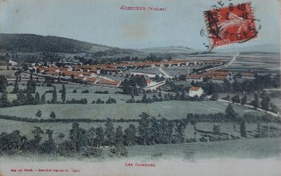 Military camp (Corcieux/Vosges/France)